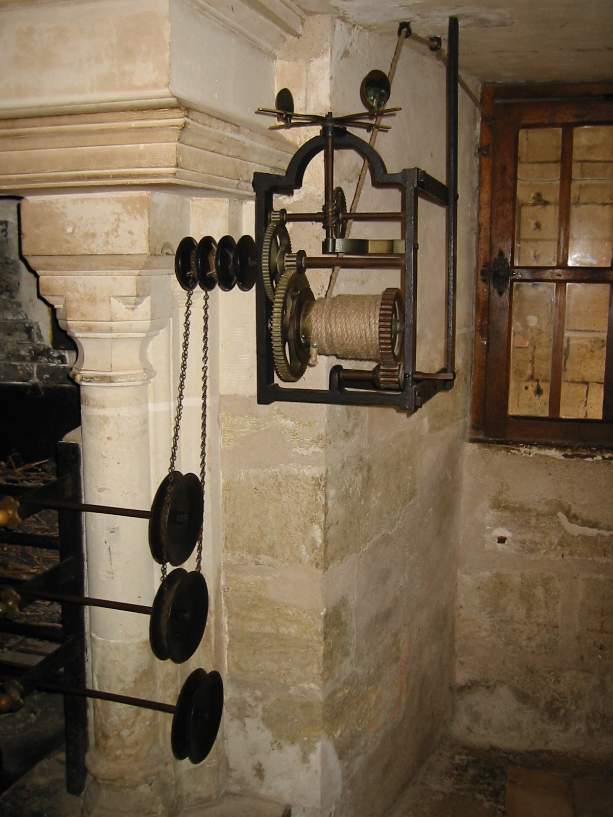 Château de Chenonceau kitchen. Spit rotating machine driven by a weight hanging down the outside wall over the river.